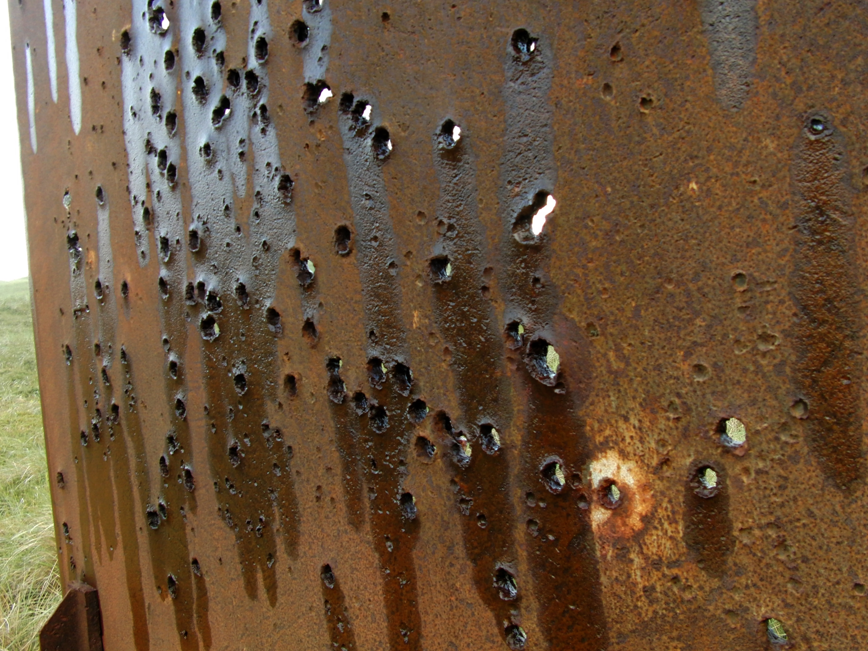 1 inch steel plate, used as shooting target in the rain. Looks like bleeding.